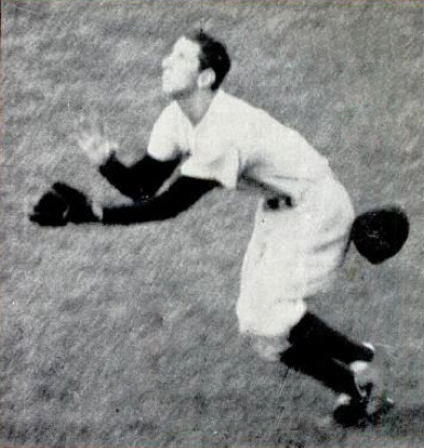 Billy Martin making a game-saving catch in Game 7 of the 1952 World Series. Photo from a 1958 Baseball Digest issue.